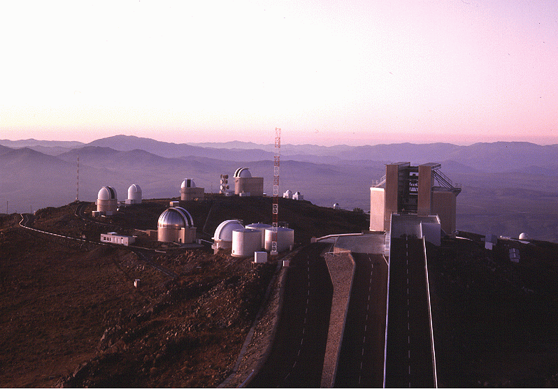 View of the NTT in front of the smaller telescopes, from the 3.6m